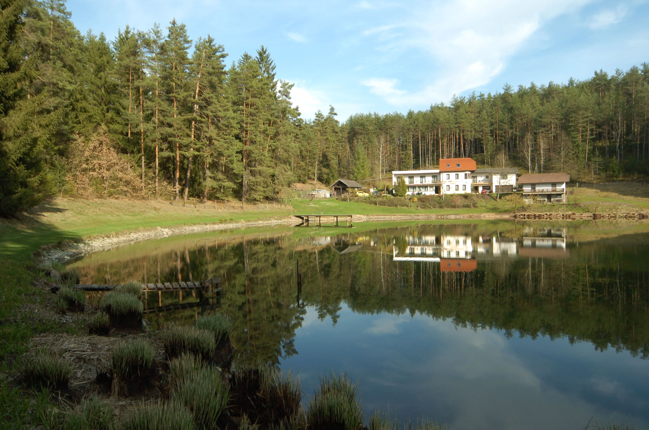 Lake Haiden (Haidensee) in the community Liebenfels, situated in the district of Saint Veit by the Glan, Carinthia, Austria